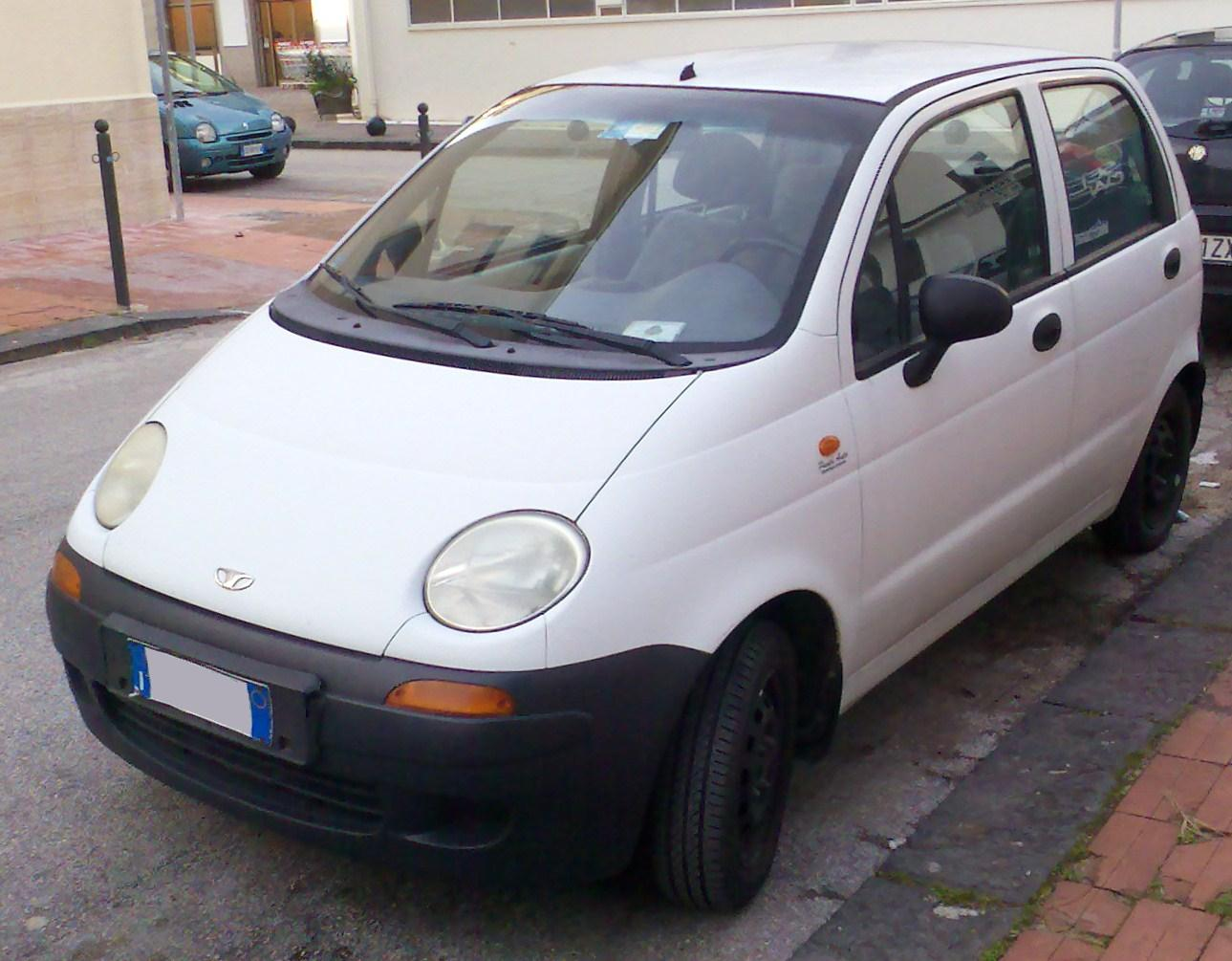 Daewoo Matiz M100